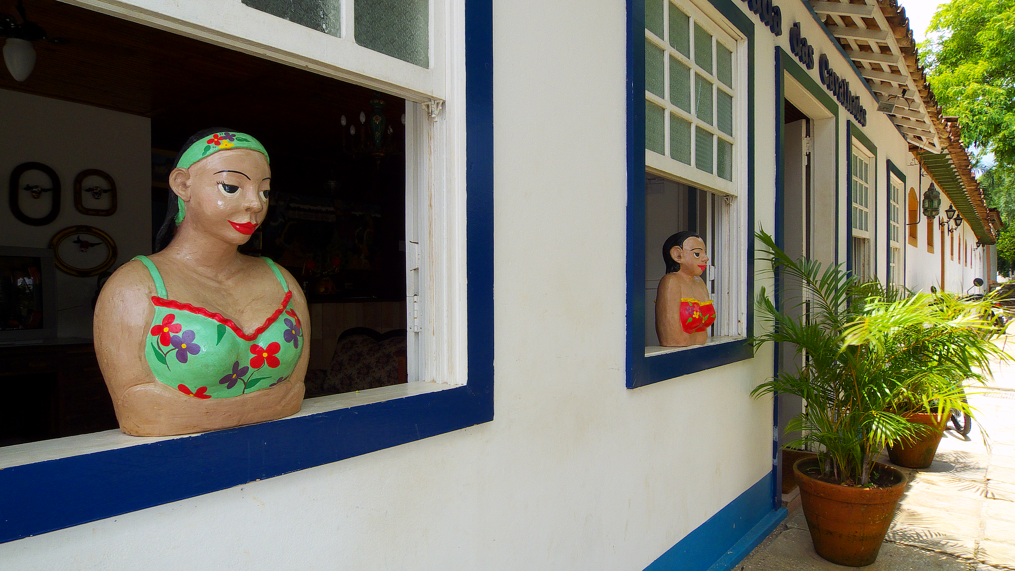 House in Pirenopolis